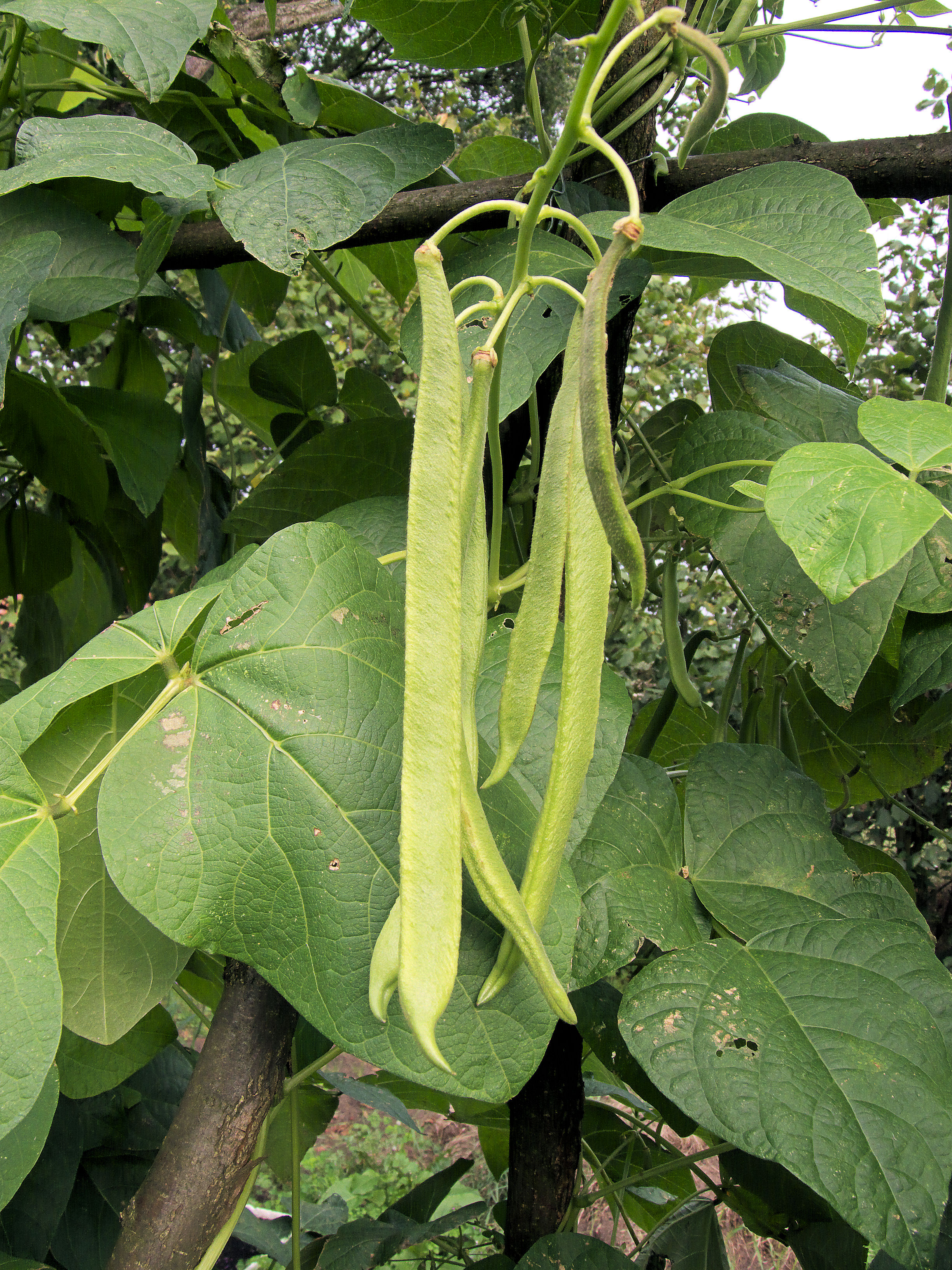 Phaseolus coccineus, Runner bean